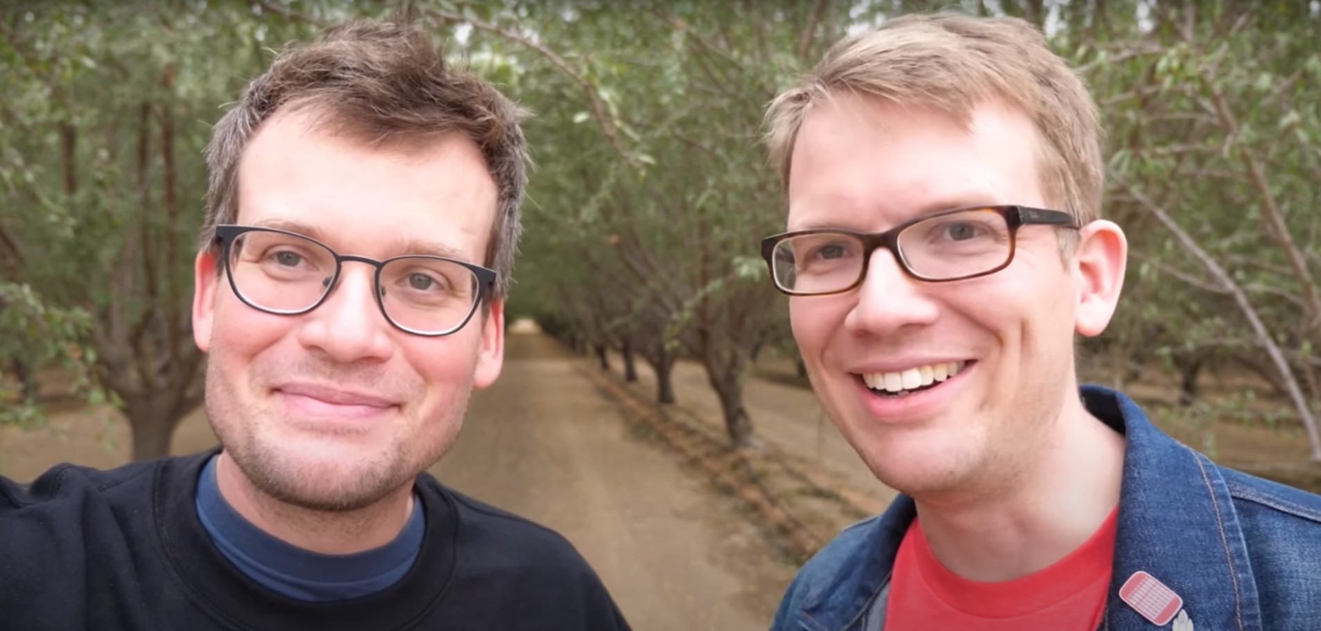 John and Hank Green appearing in the 2017 Vlogbrothers video, "Definitely Not a Pecan Orchard: A Pizzamas Question Tuesday".